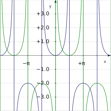 Plot of the exsecant (blue) and excosecant (green) functions.